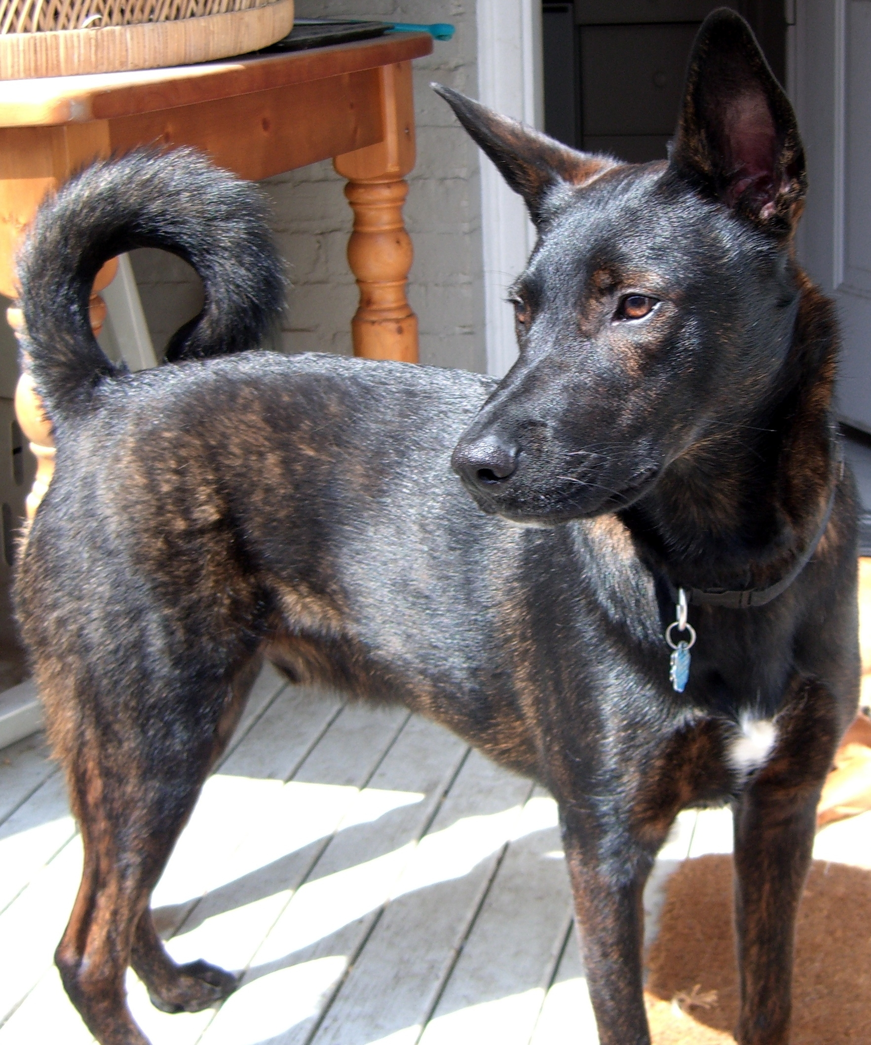 Dutch Shepherd, male, short haired.